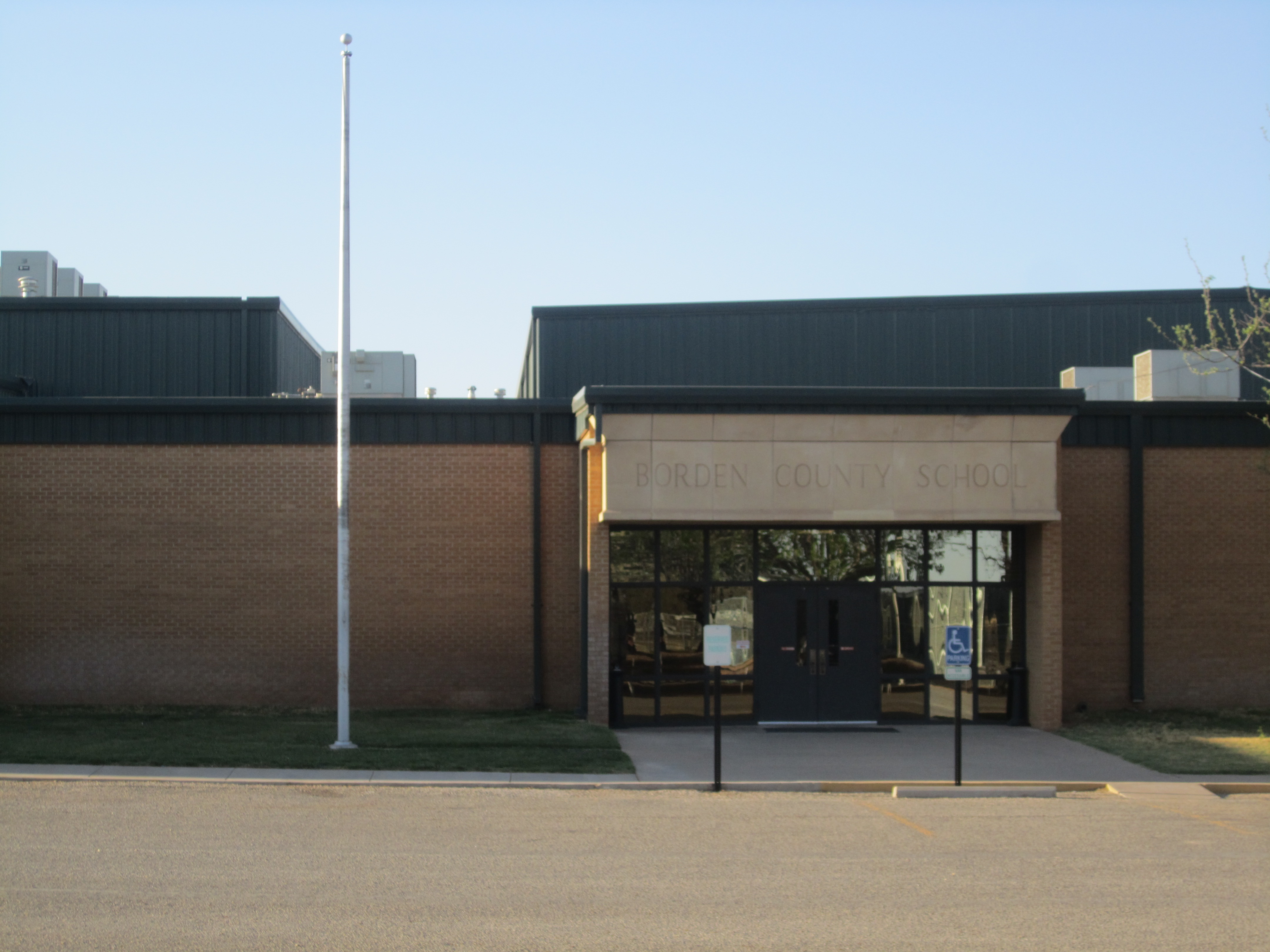 I took photo with Canon camera in Gail, TX.